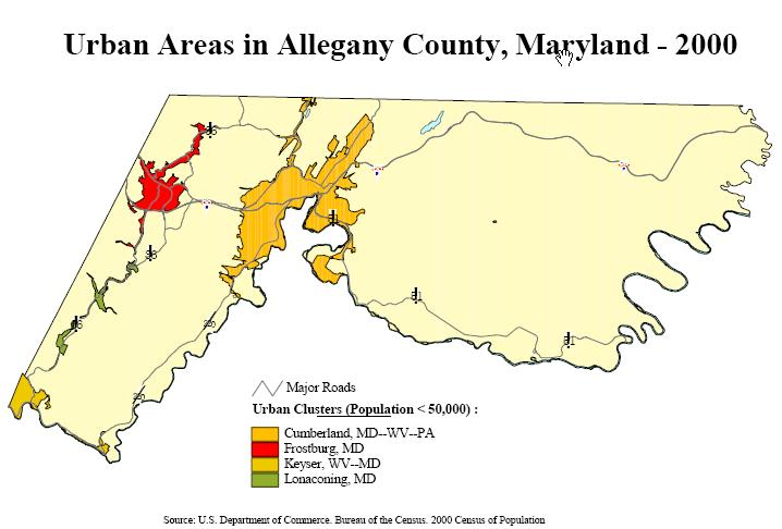 (US Department of Commerce. Bureau of the Census. 2000)